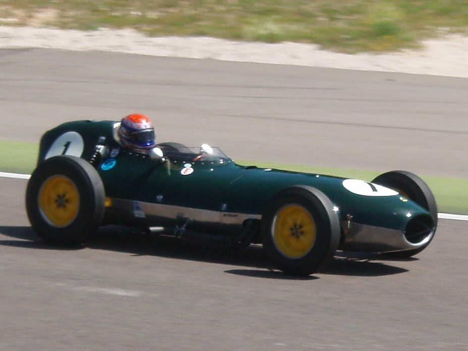 Lotus 16 Formula 1 racing during the HGPCA pre-61 race, 2011 Grand Prix de l'Âge d'Or in Dijon-Prenois.